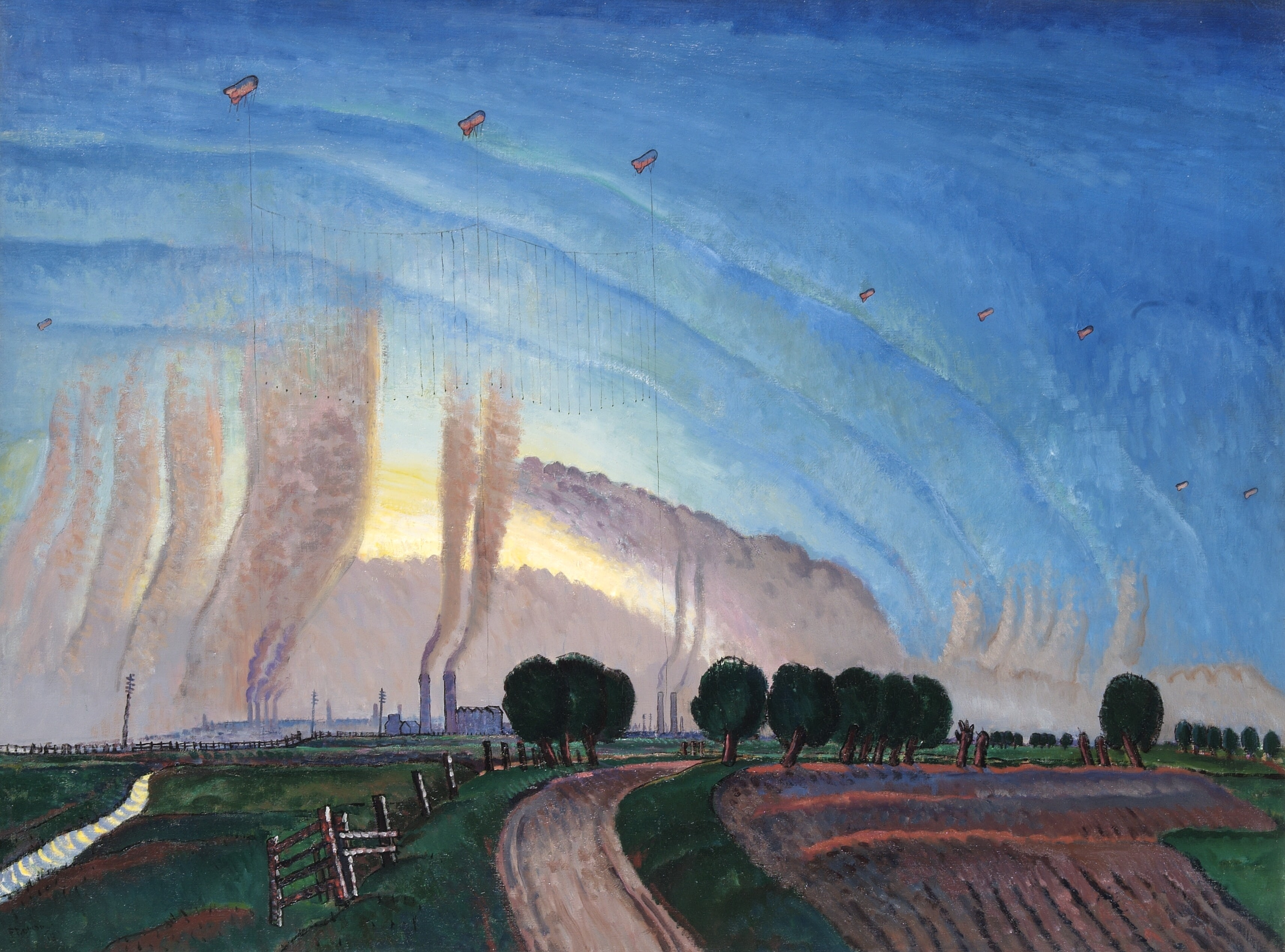 The Balloon Apron image: A view across a flat agricultural landscape. Barrage balloons are lit by a dramatic evening sunset. On the horizon factory chimneys send up thick vertical streams of smoke into the sky. In the foreground lies a narrow country road that curves off into the distance.